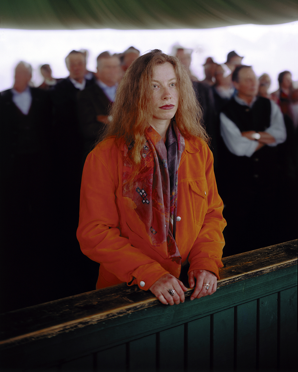 Portrait from a series on observers in a cyclorama